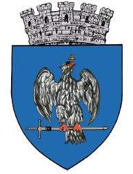 Coat of arms of the city of Curtea de Argeș, Romania